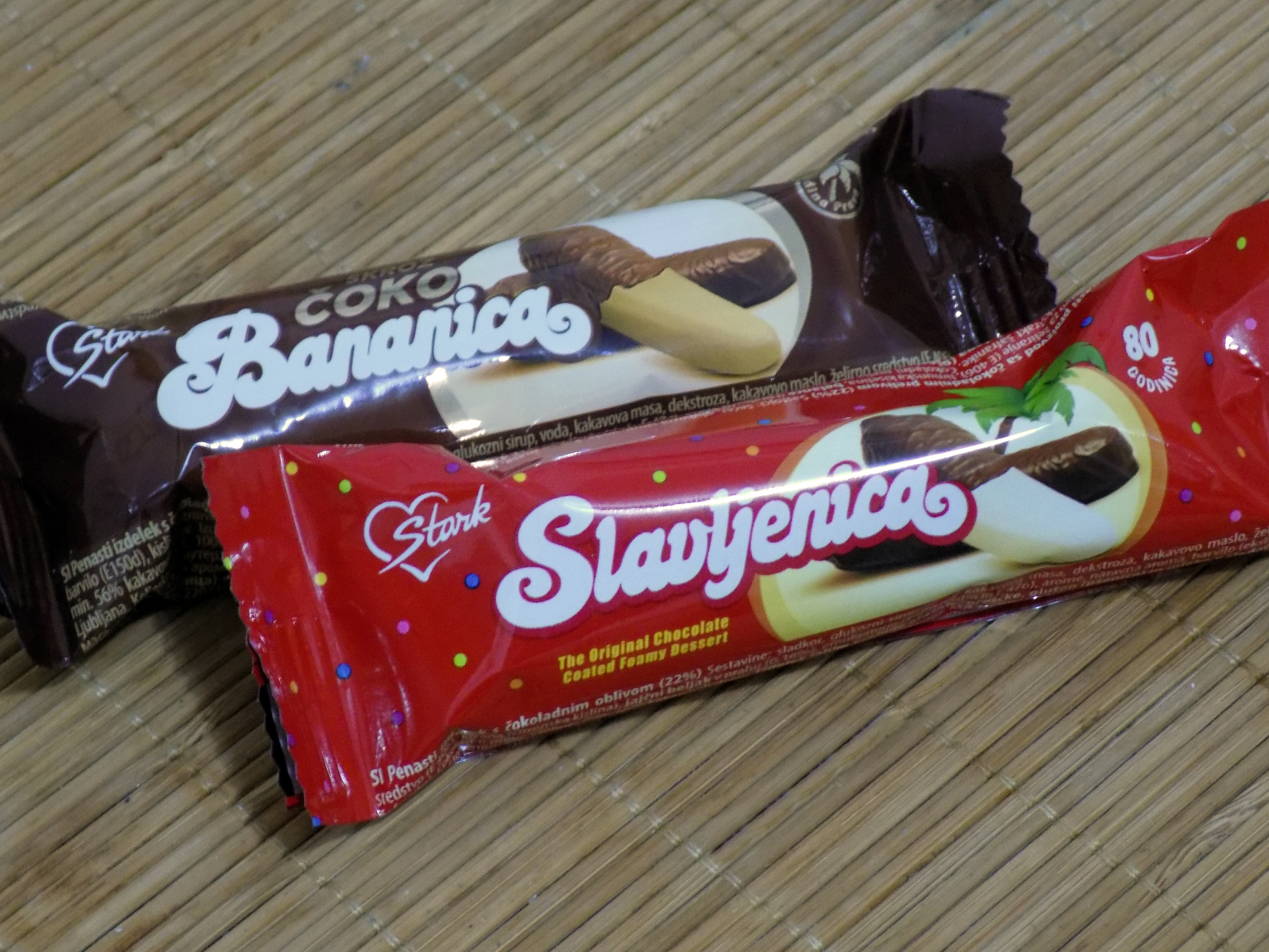 "Bananica" (Cream banana), Serbian brand since 1938. - "Slavljenica" (Celebrity), jubilee series on the occasion of the 80th birthday and new product, "Skroz čoko Bananica" ("Whole Chocolate Banana")